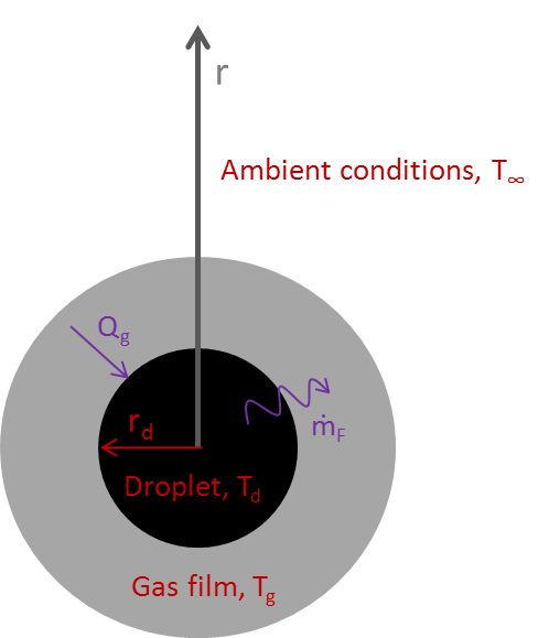 Sketch for the symmetric vaporizing droplet case